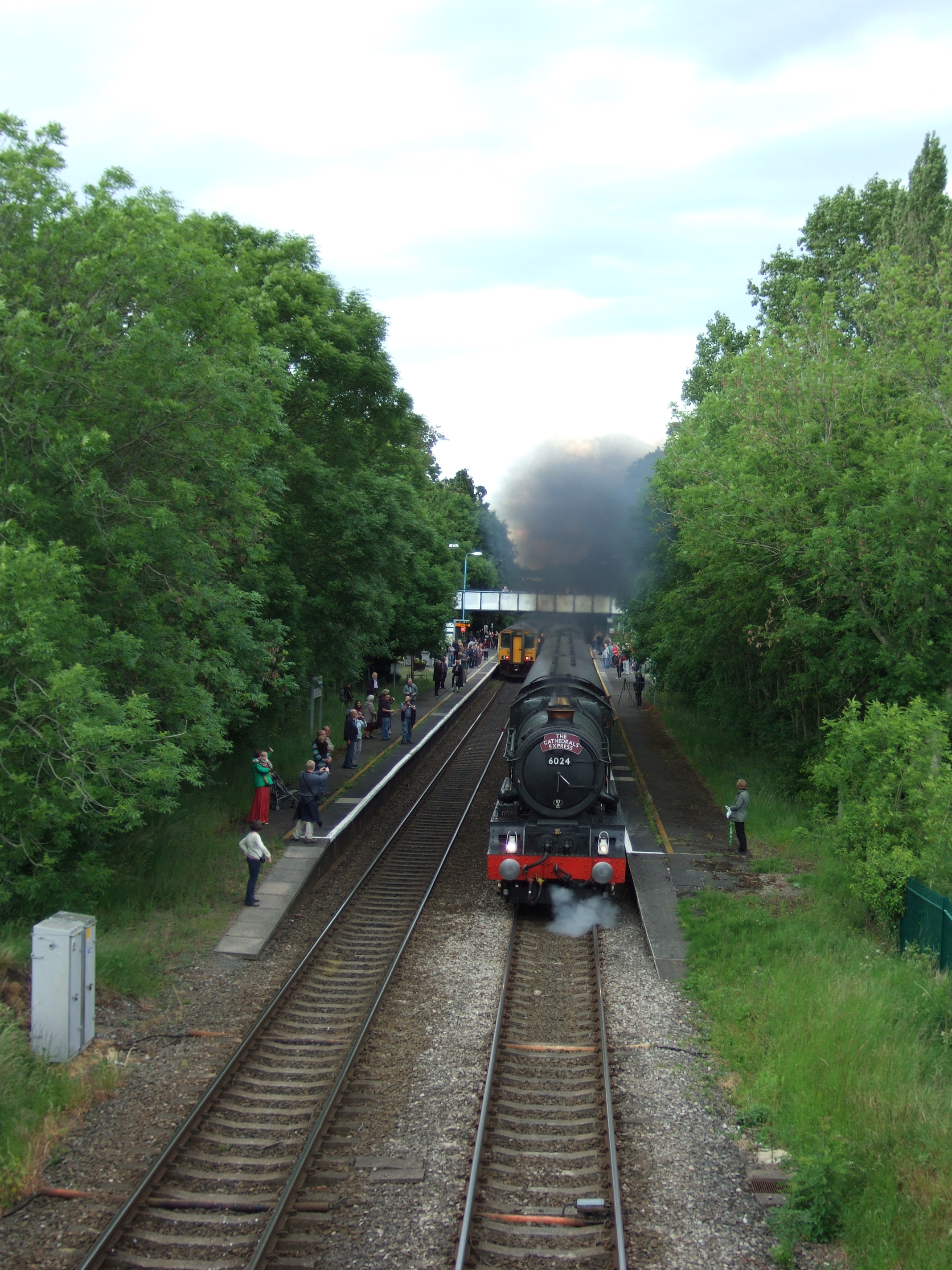 GWR 6000 King Edward I (6024) running through Church Stretton station